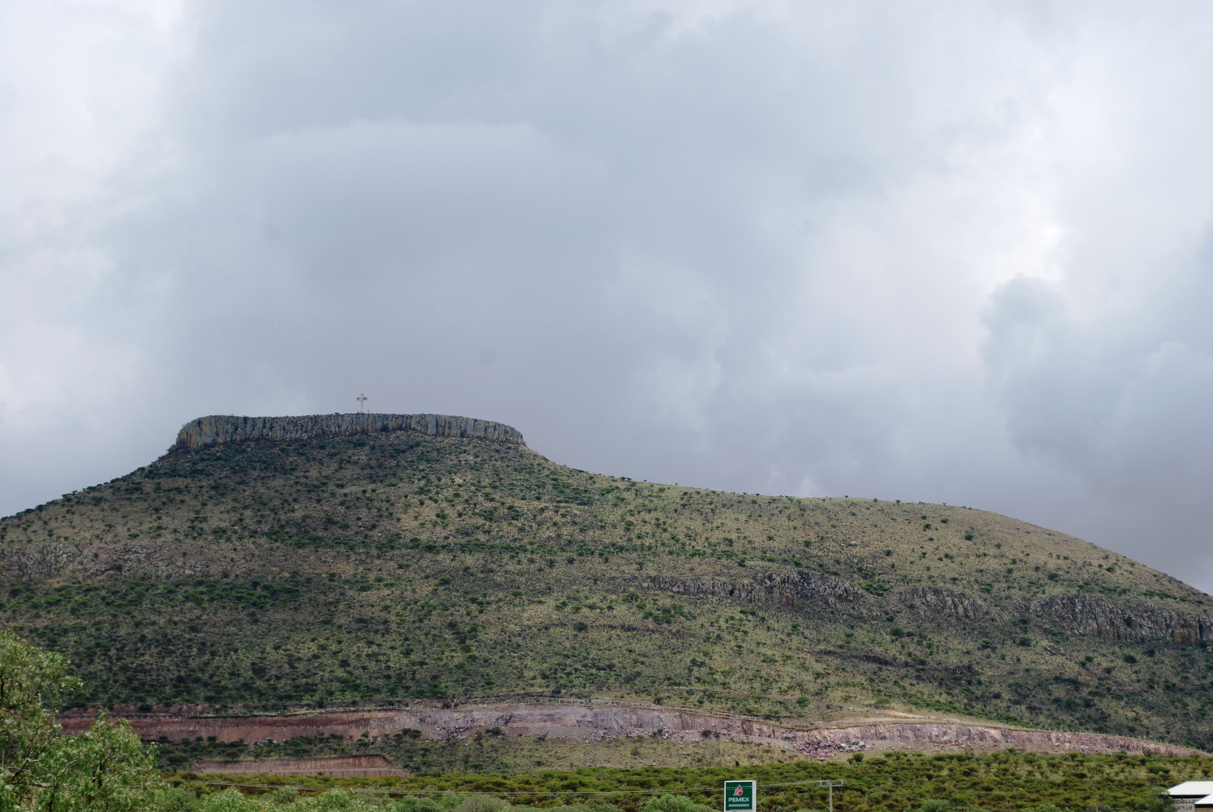 Sombrerete Mountain in Zacatecas